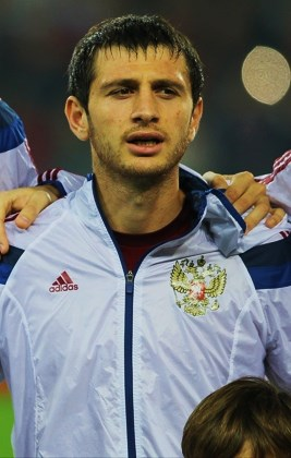 Alan Dzagoev